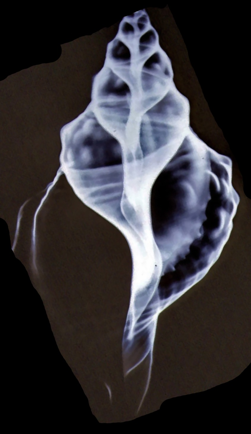 radiology image of abapertual view of shell of Charonia sp.